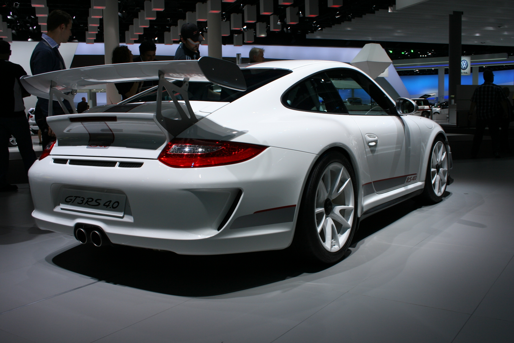 White Porsche 997 (911 GT3 RS 4.0) at IAA 2011. View: rear left